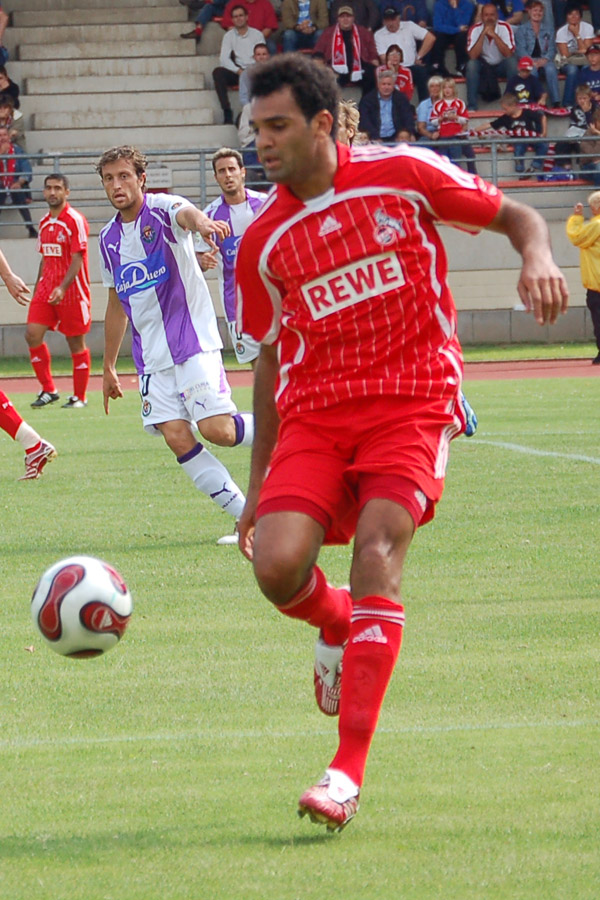 Roda Antar during a pre-season match of his club 1. FC Köln